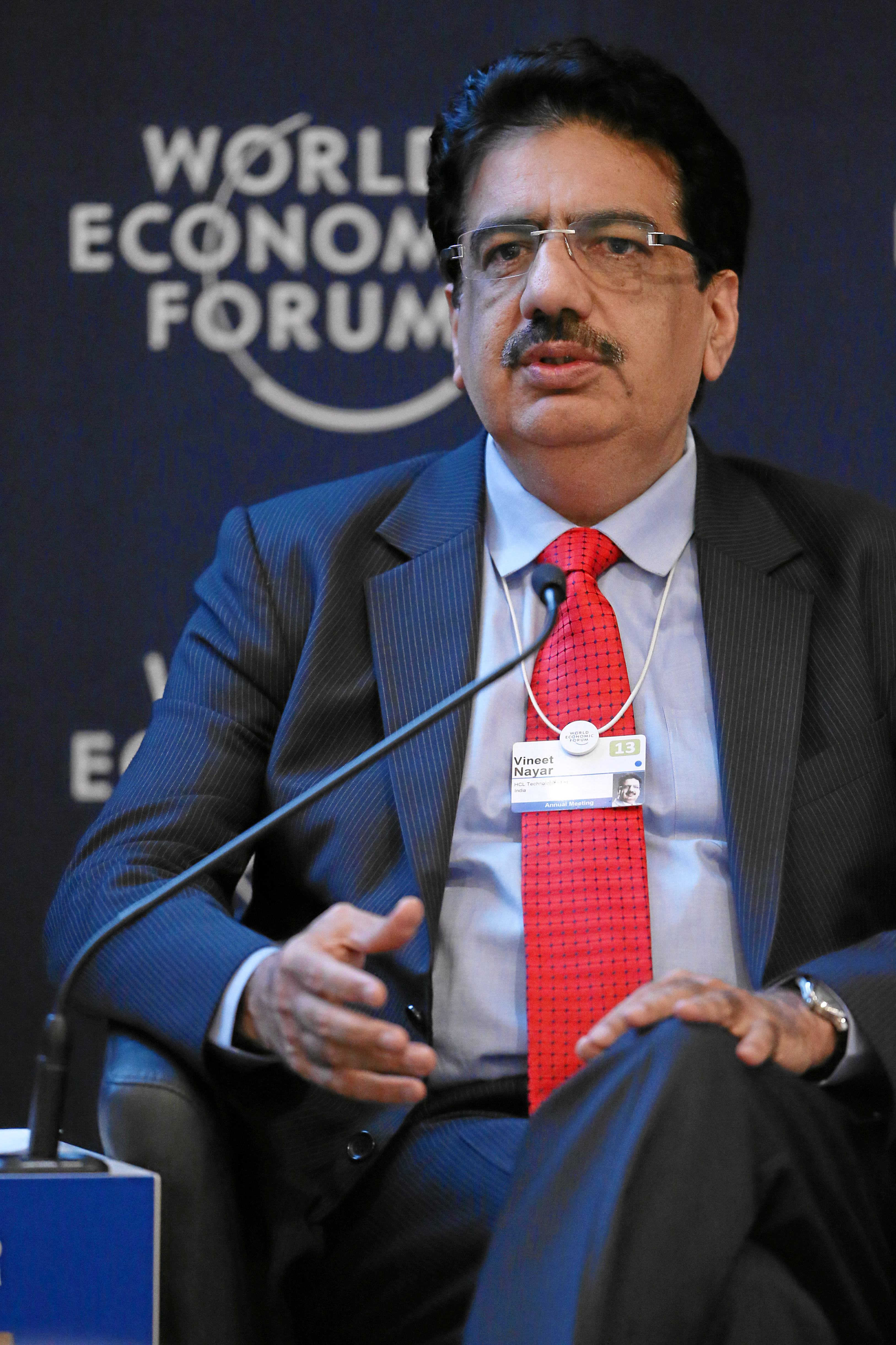 DAVOS/SWITZERLAND, 25JAN13 - Vineet Nayar, Vice-Chairman and Joint Managing Director, HCL Technologies, India; Co-Chair of the Governors for Information and Communication Technologies Industries 2013 is seen during the session 'Meeting the Innovation Imperative' at the Annual Meeting 2013 of the World Economic Forum in Davos, Switzerland, January 25, 2013. . . Copyright by World Economic Forum. . Moritz Hager